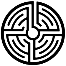 Labyrinth of Buda Castle